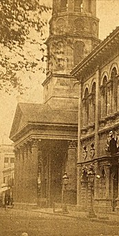 The portico and steeple base of the Circular Church were photographed in 1860.